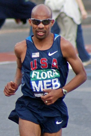 Meb Keflezighi of the United States at the 2009 London Marathon